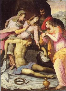 The Deposition